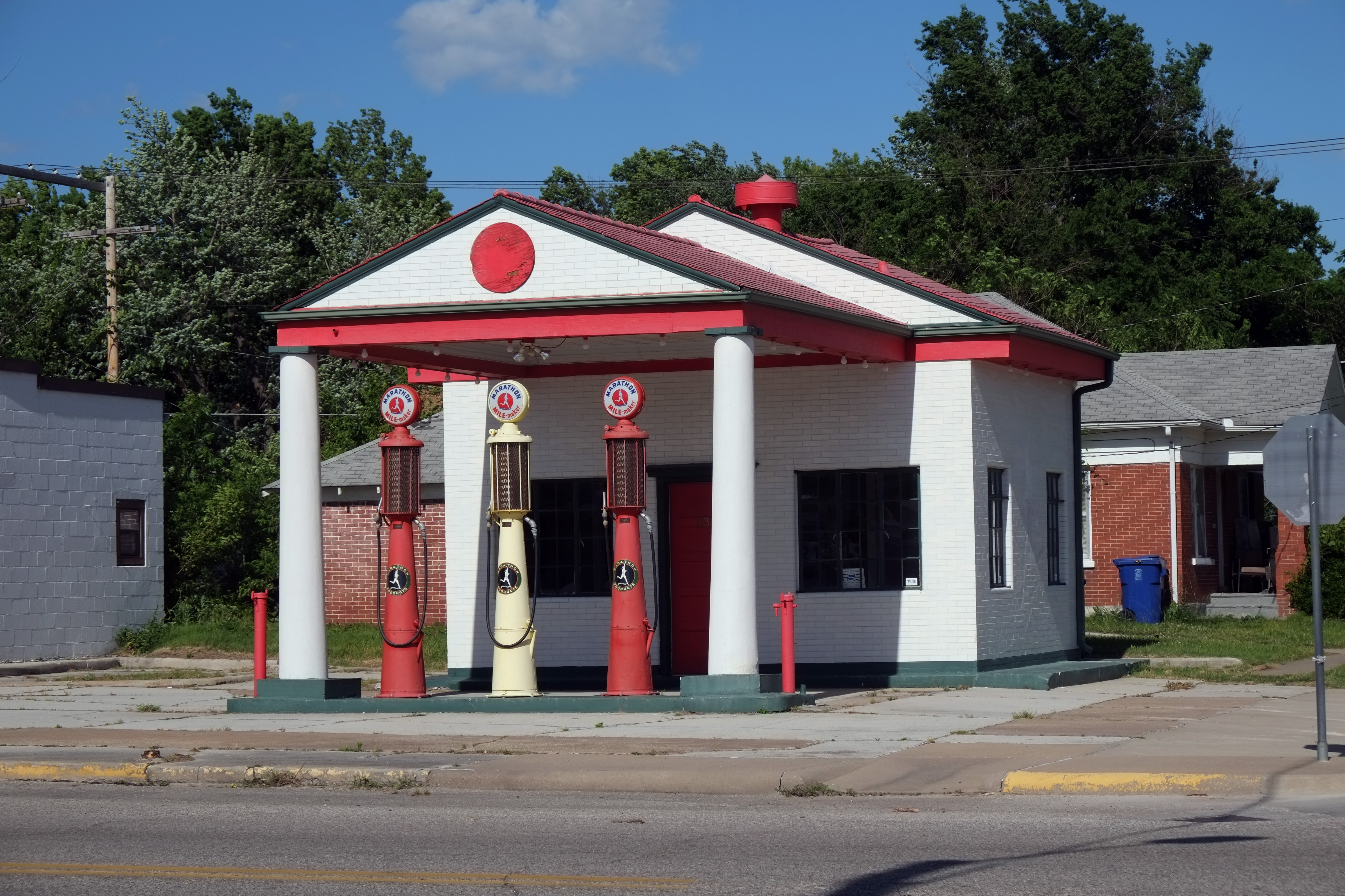 Marathon station in Miami, Oklahoma